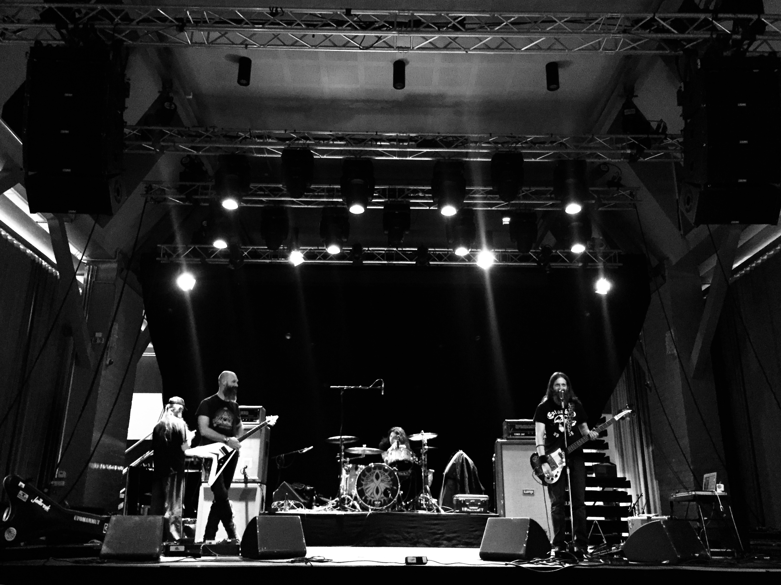 Ufomammut soundcheck at Blowup Vol. 3 - Korjaamo - Helsinki (FIN) – 13.10.17